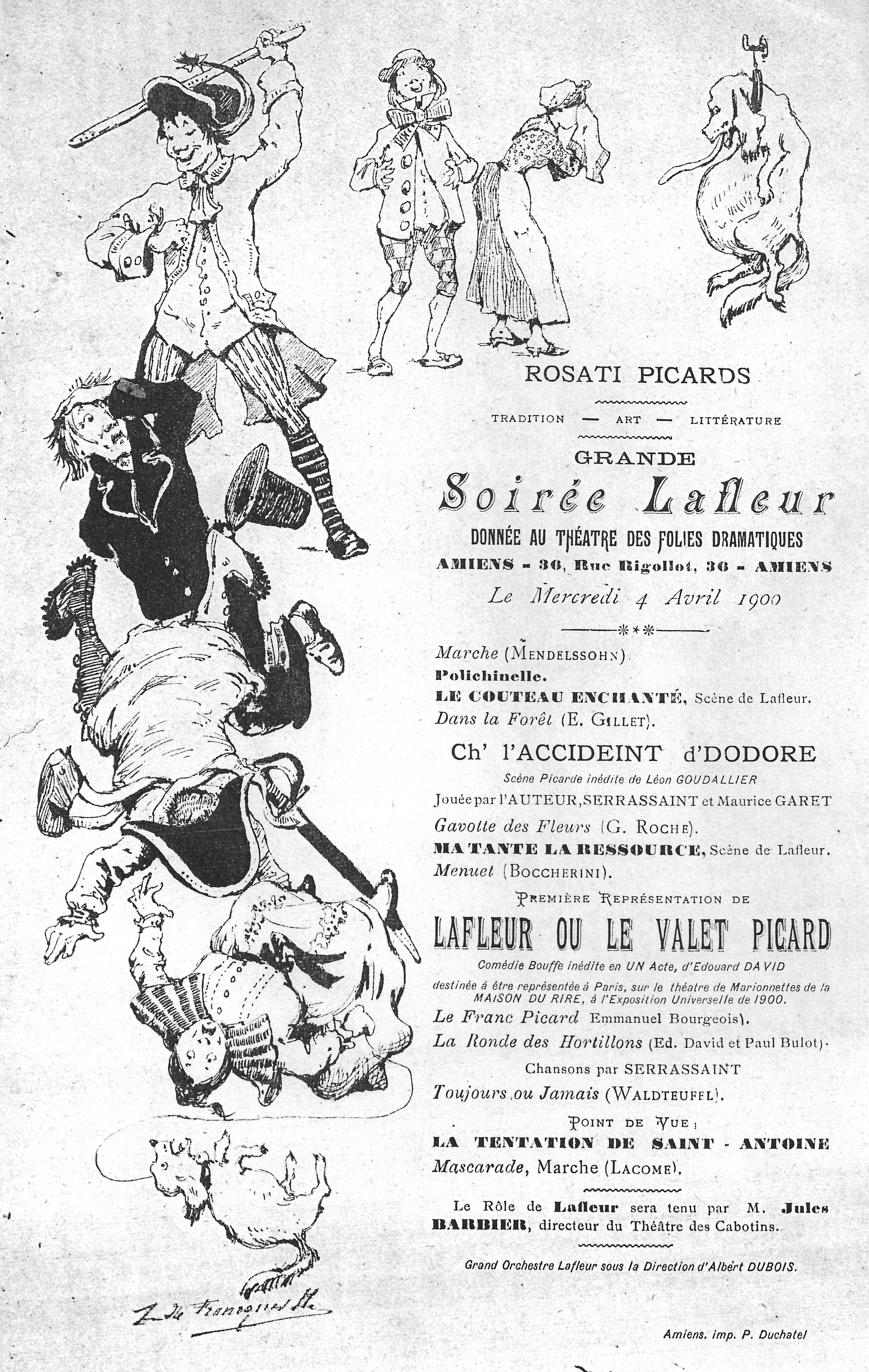 Affiche 5 Jean de Francqueville